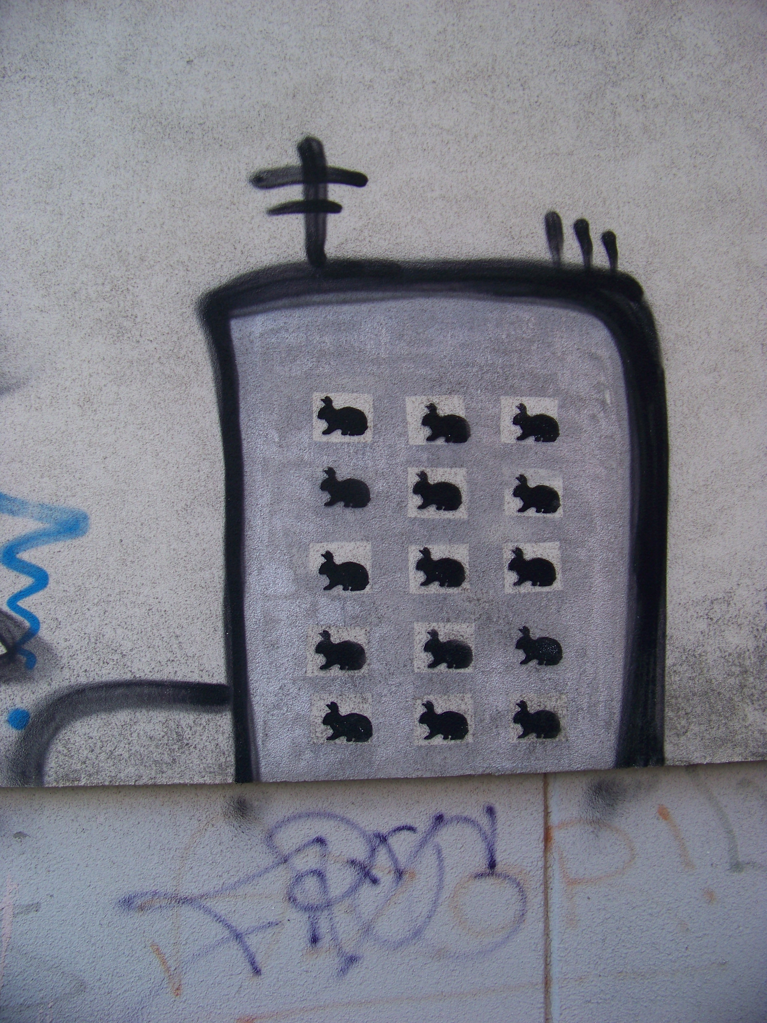 Prague-Stodůlky-Velká Ohrada, the Czech Republic. A graffiti – block panel house as a rabbit hutch.